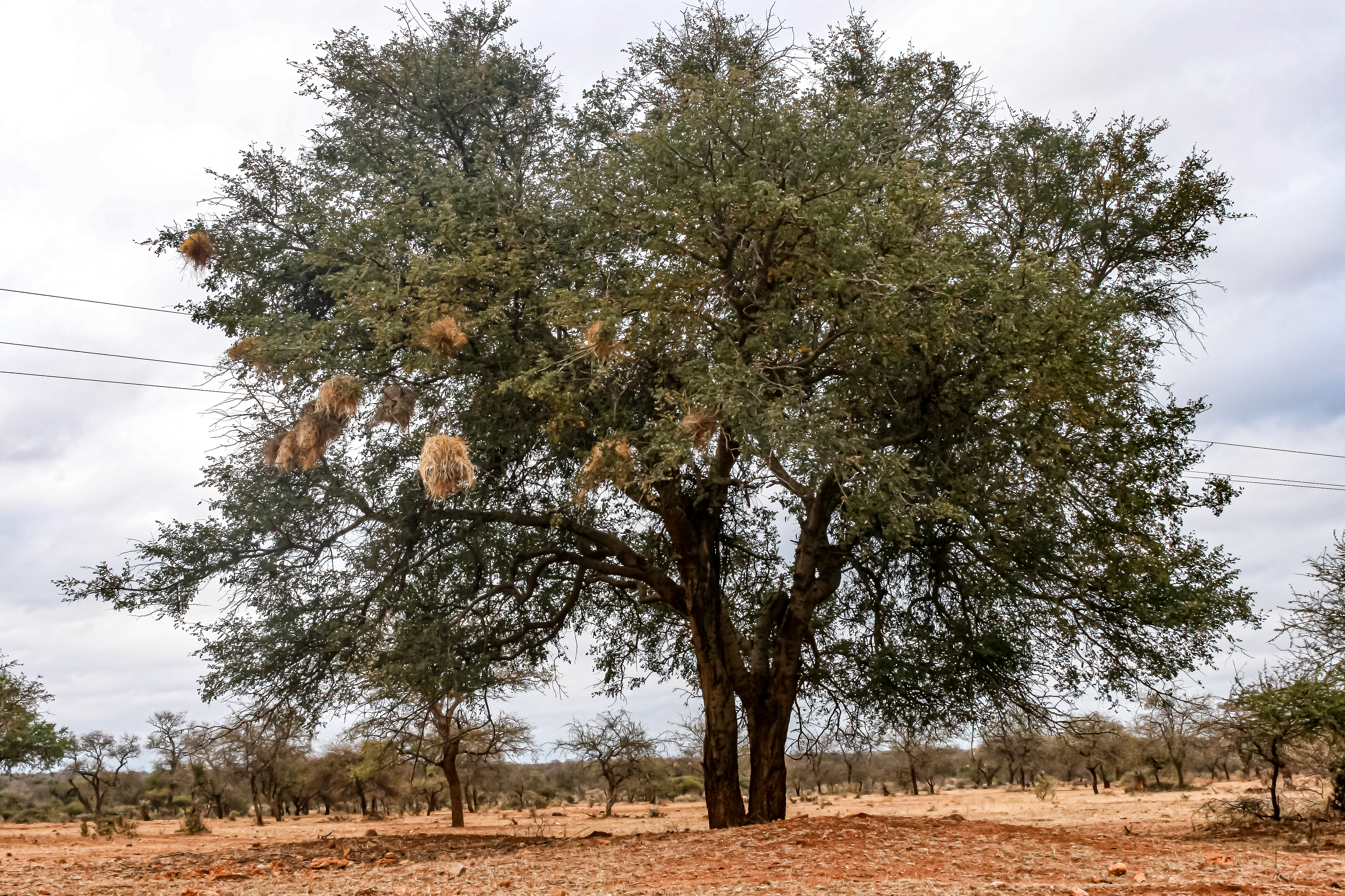 This is an image with the theme "Africa on the Move or Transport" from: South Africa